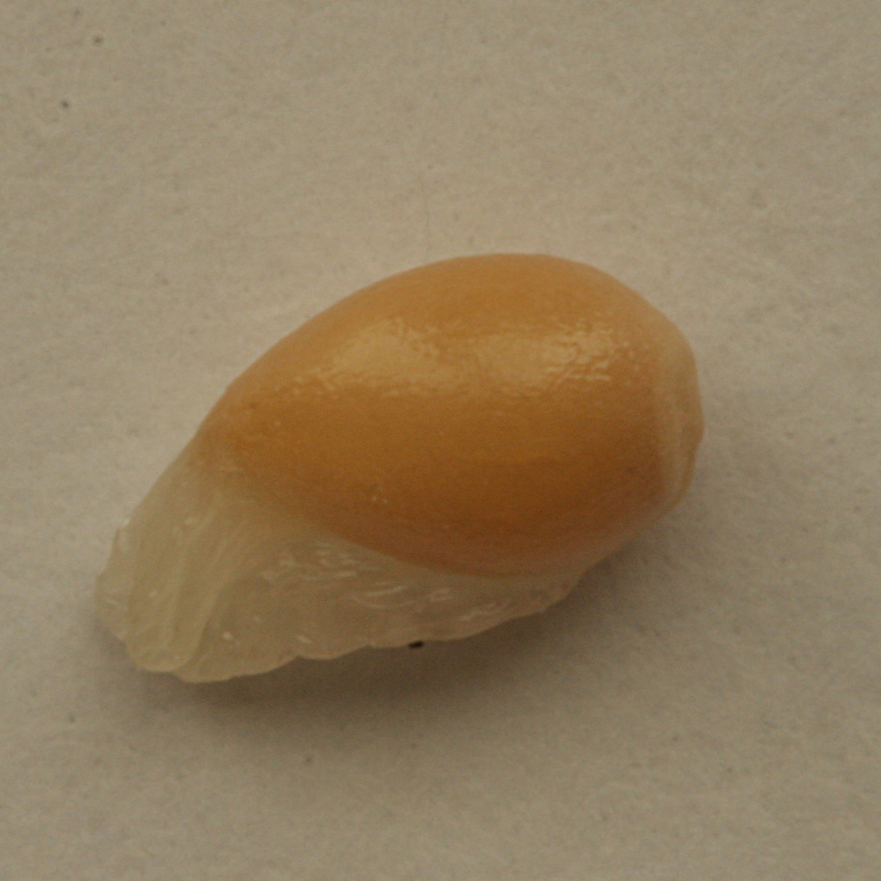 Seed of Viola odorata.